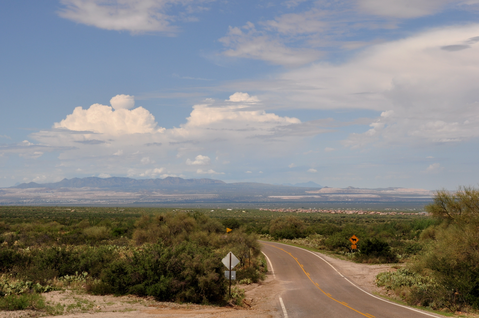 Corona de Tucson, view of mines & Sierrita Mtns